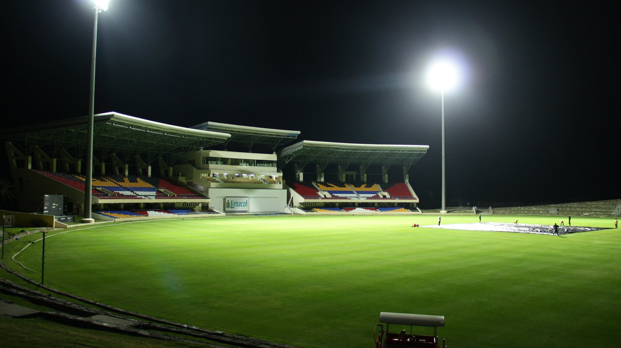 Curtley Ambrose end of Sir Vivian Richards Stadium.